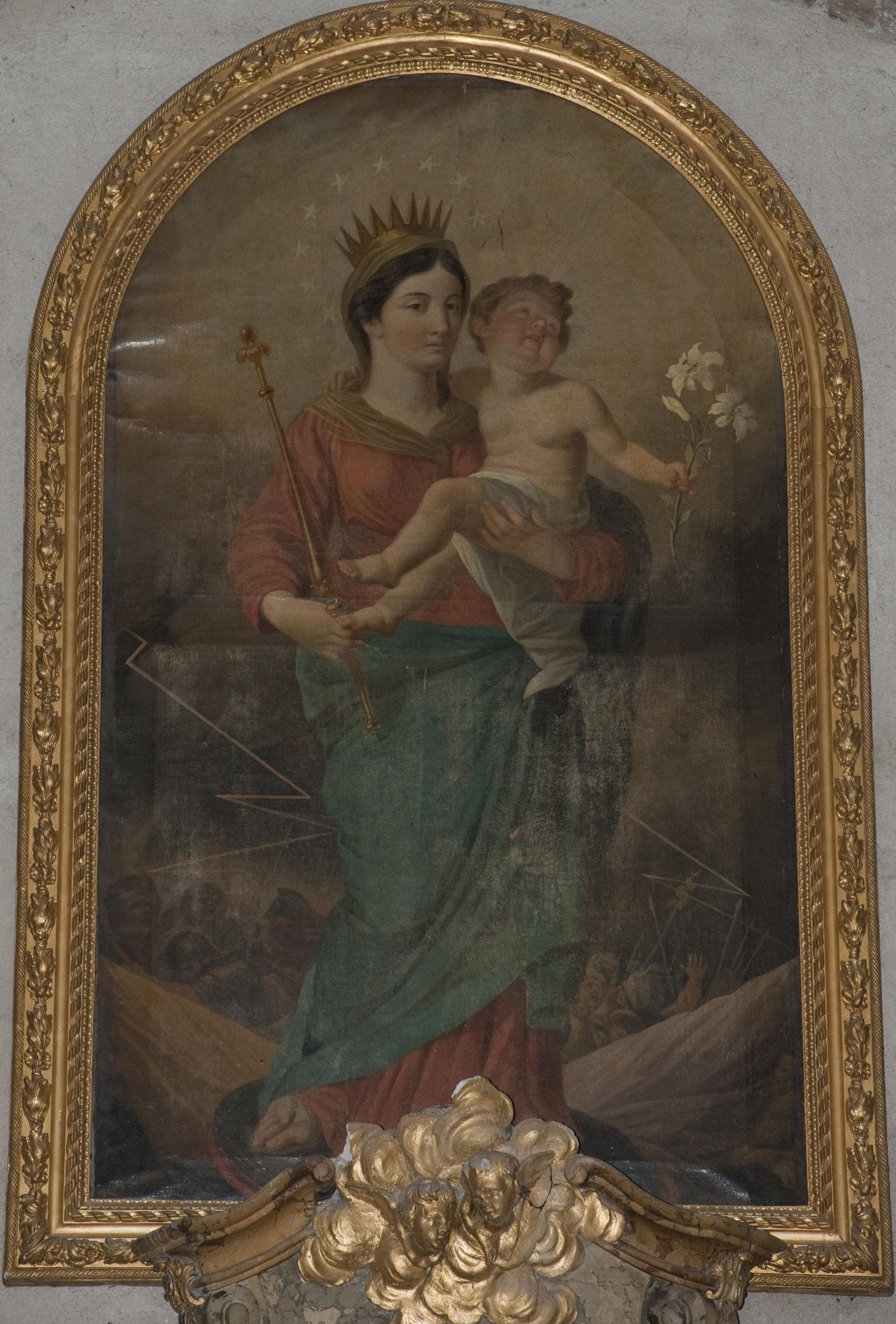 Notre-Dame Libératrice de François Laurent Bruno Jourdain